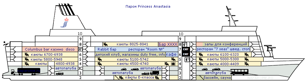 SPL Princess Anastasia cut ferry